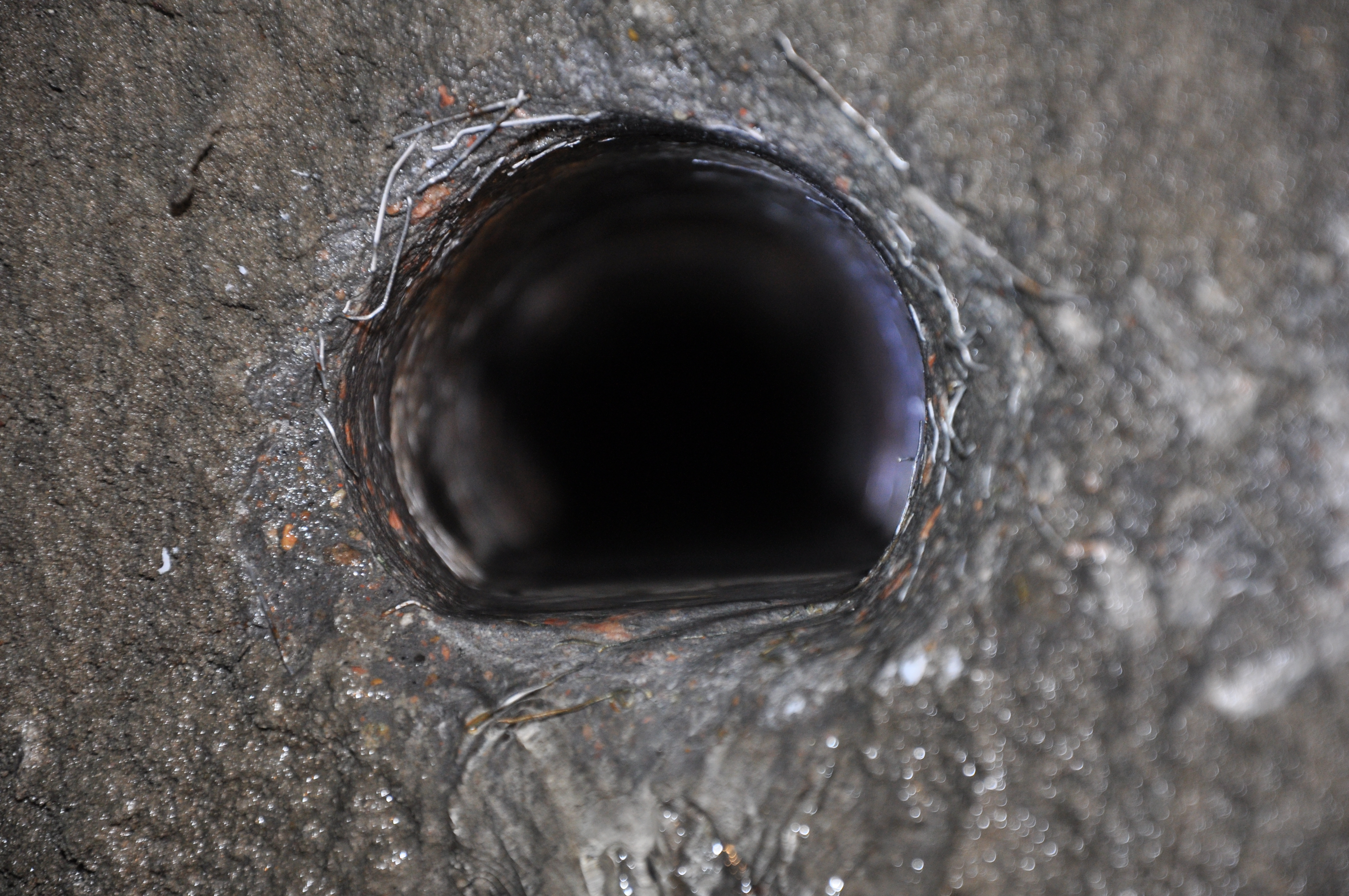 A 76 mm percussion drilled borehole in fibre reinforced shotcrete on a tunnel wall. The outflow of water is approx. 3l/min.